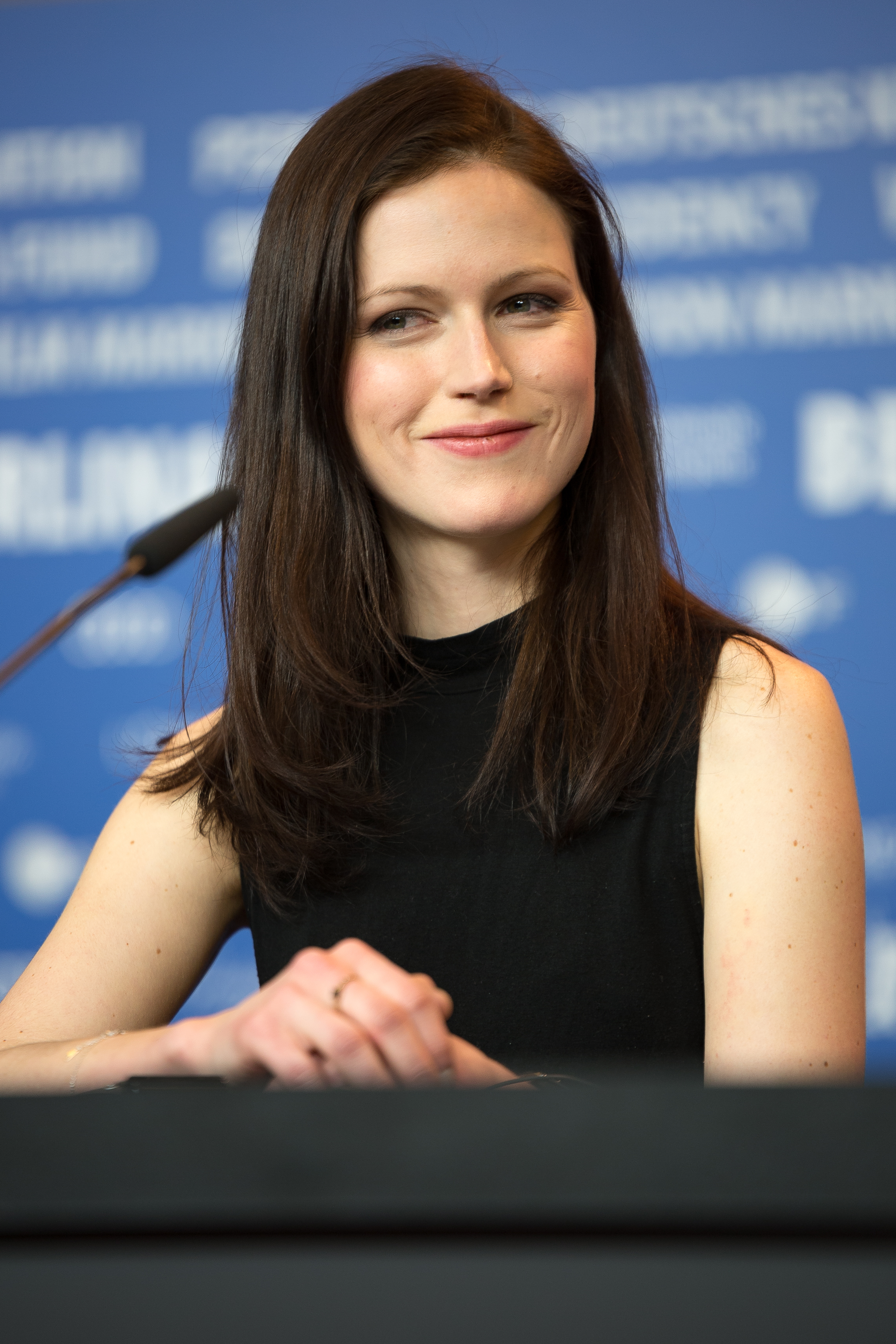 ActressPatricia Volny at the presentation of the polish movie Spoor at the Berlinale 2017